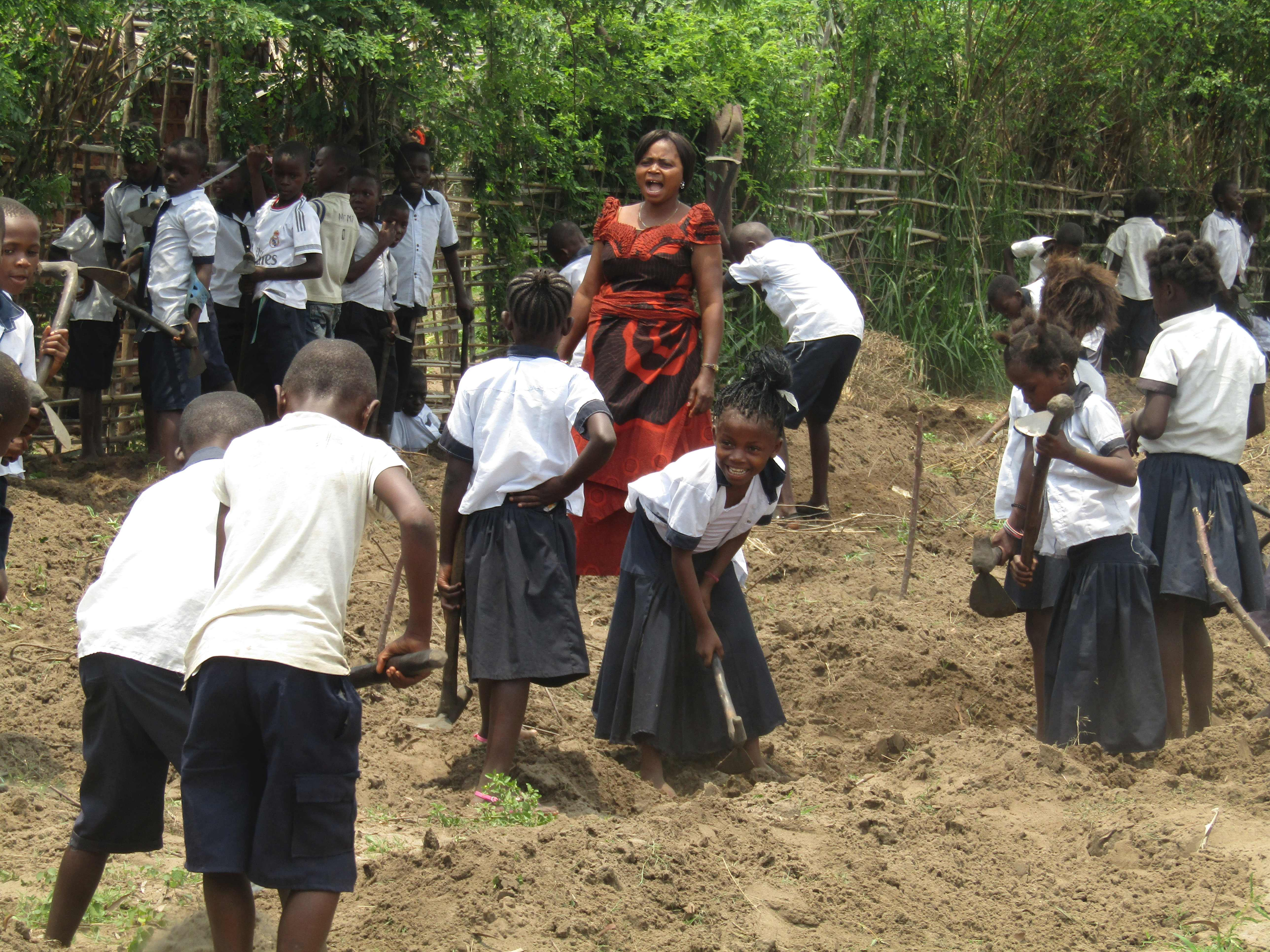 children learning the cultivation of land at school, Kikwit This is an image of "African people at work" from Democratic Republic of the Congo